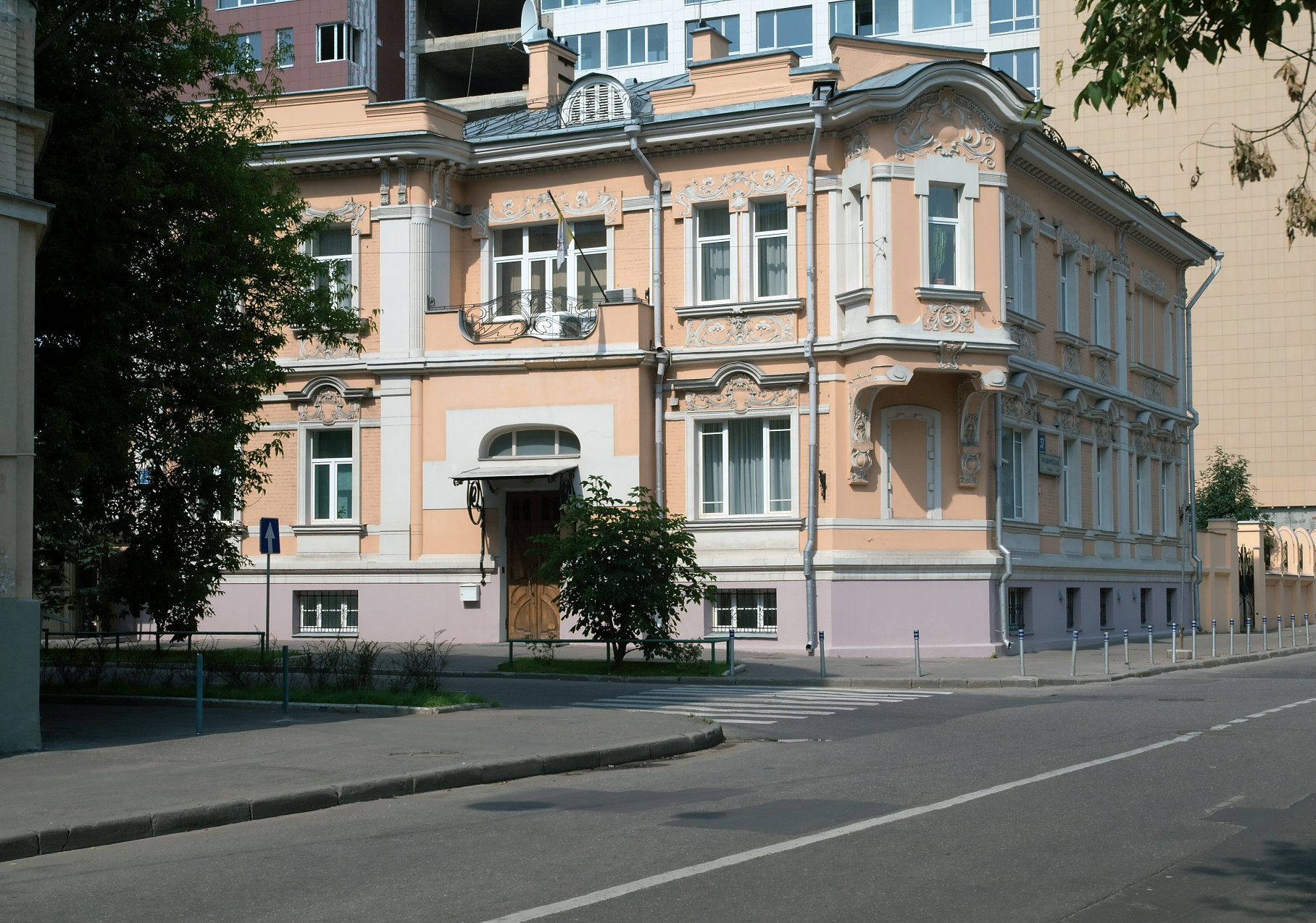 Apostololic nunciature in Moscow (corner of Tikhvinskaya Street and Vadkovsky lane). Built in 1903, architect: Pyotr Kharko, born 1871 - year of death unknown